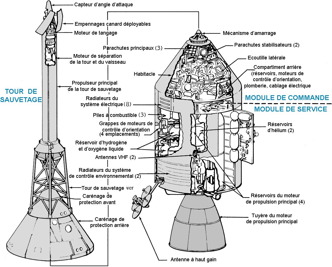 French version of the original english Line drawing of Apollo Command/Service Module